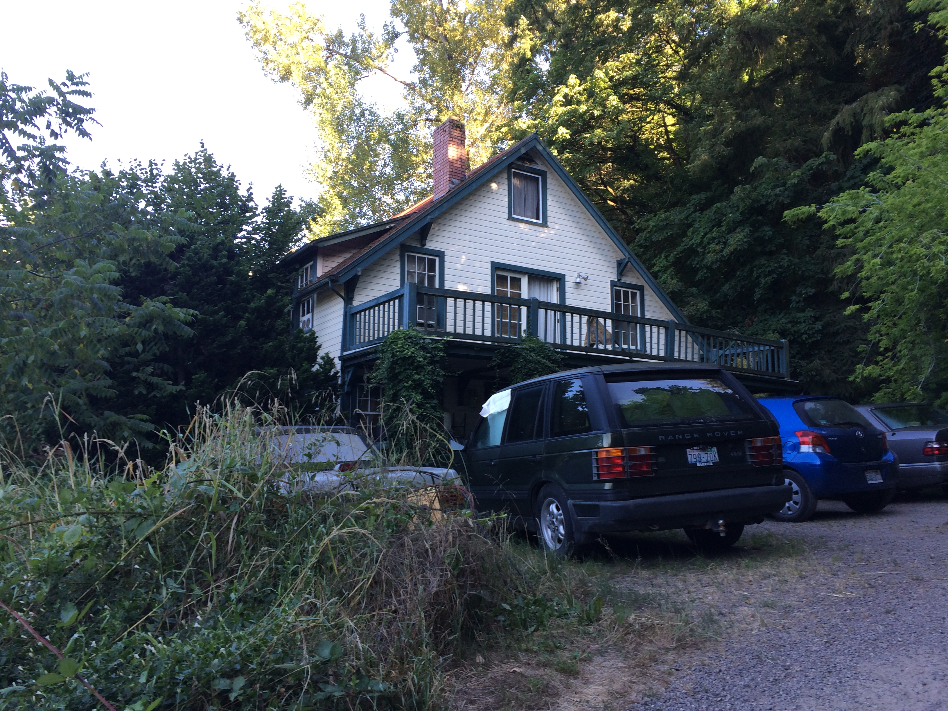 Horatio and Laura Allen Farm Very secluded property is well off the highway at listed address at end of a one-lane gravel road. This is best view of farmhouse available.